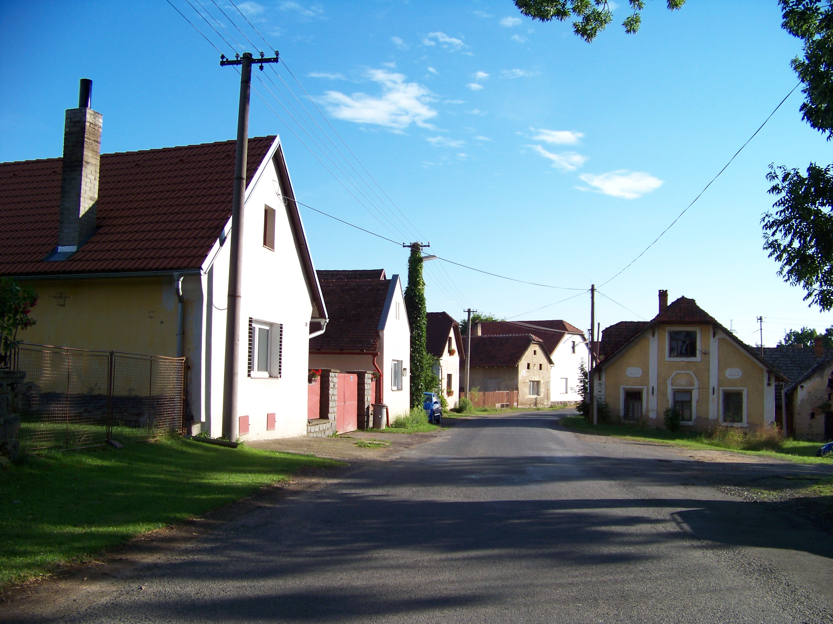 Nedrahovice, Příbram District, Central Bohemian Region, the Czech Republic. - Google Maps - Google Earth